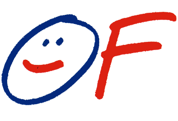 Logo of Civic Forum